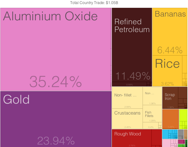 Export Trading Treemap. From MIT/Harvard Atlas of Economic Complexity